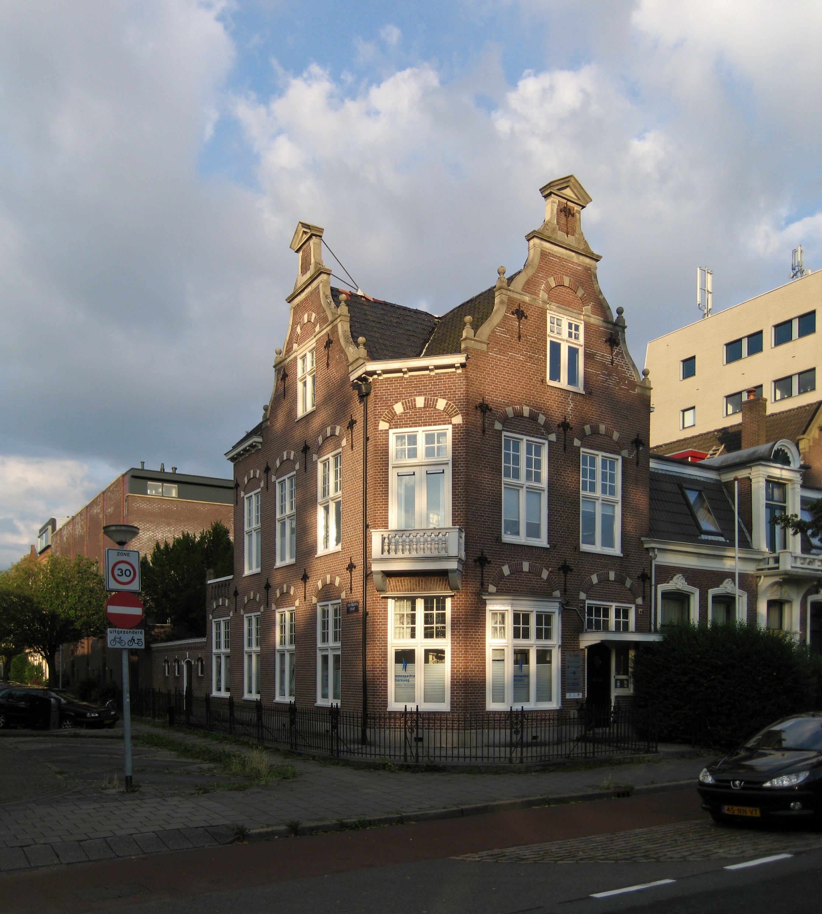 House (1913) in the Dutch city of Groningen.